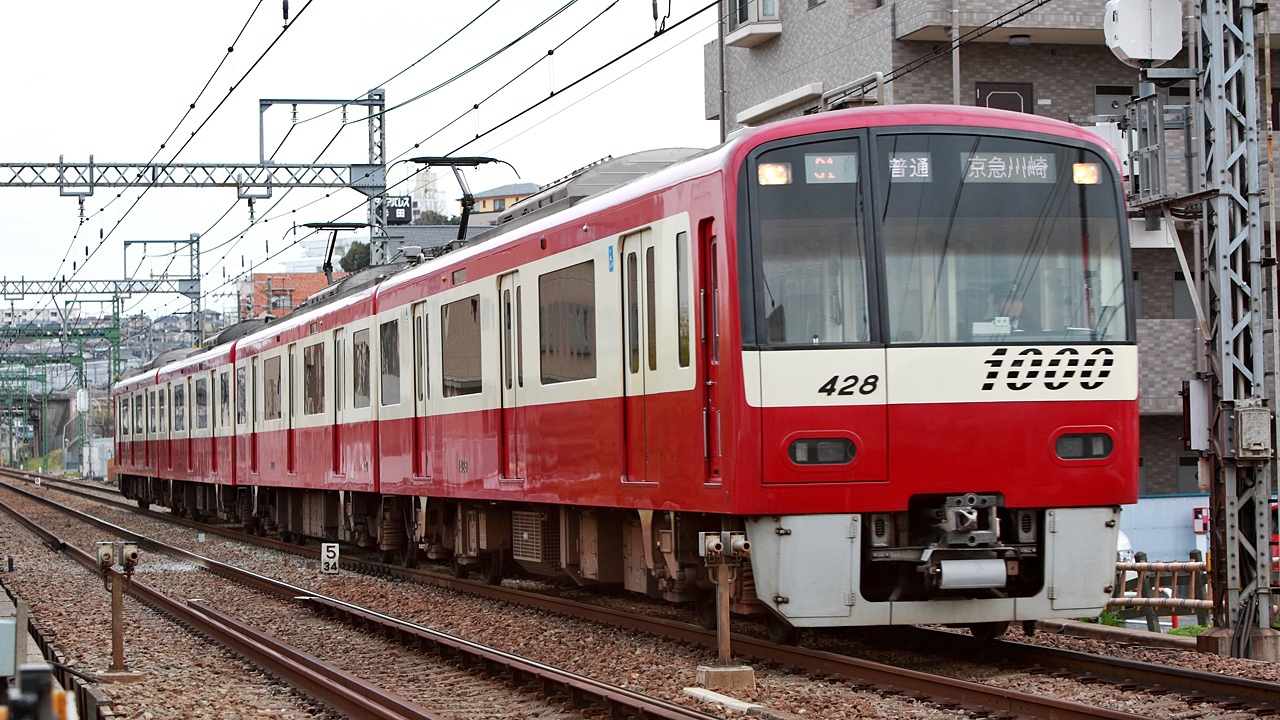 Keikyu N1000 series 4th-batch 4-car EMU set 1425